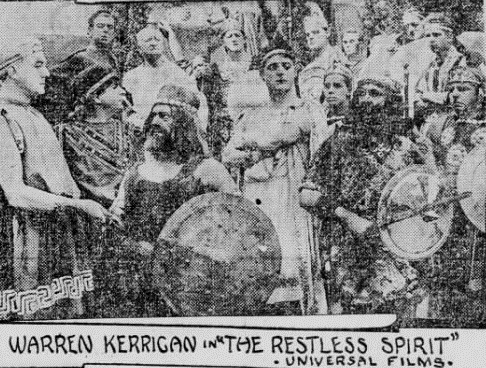 Image from Universal Studios release of The Restless Spirit by Allan Dwan. This is a film still, badly deteriorated by age and the newspaper printing process which depicts the lost film. The image in question comes from a cropped image extracted from the El Paso Herald (El Paso, Texas) on 28 October 1913 that was clipped from Newspapers.coms archives.